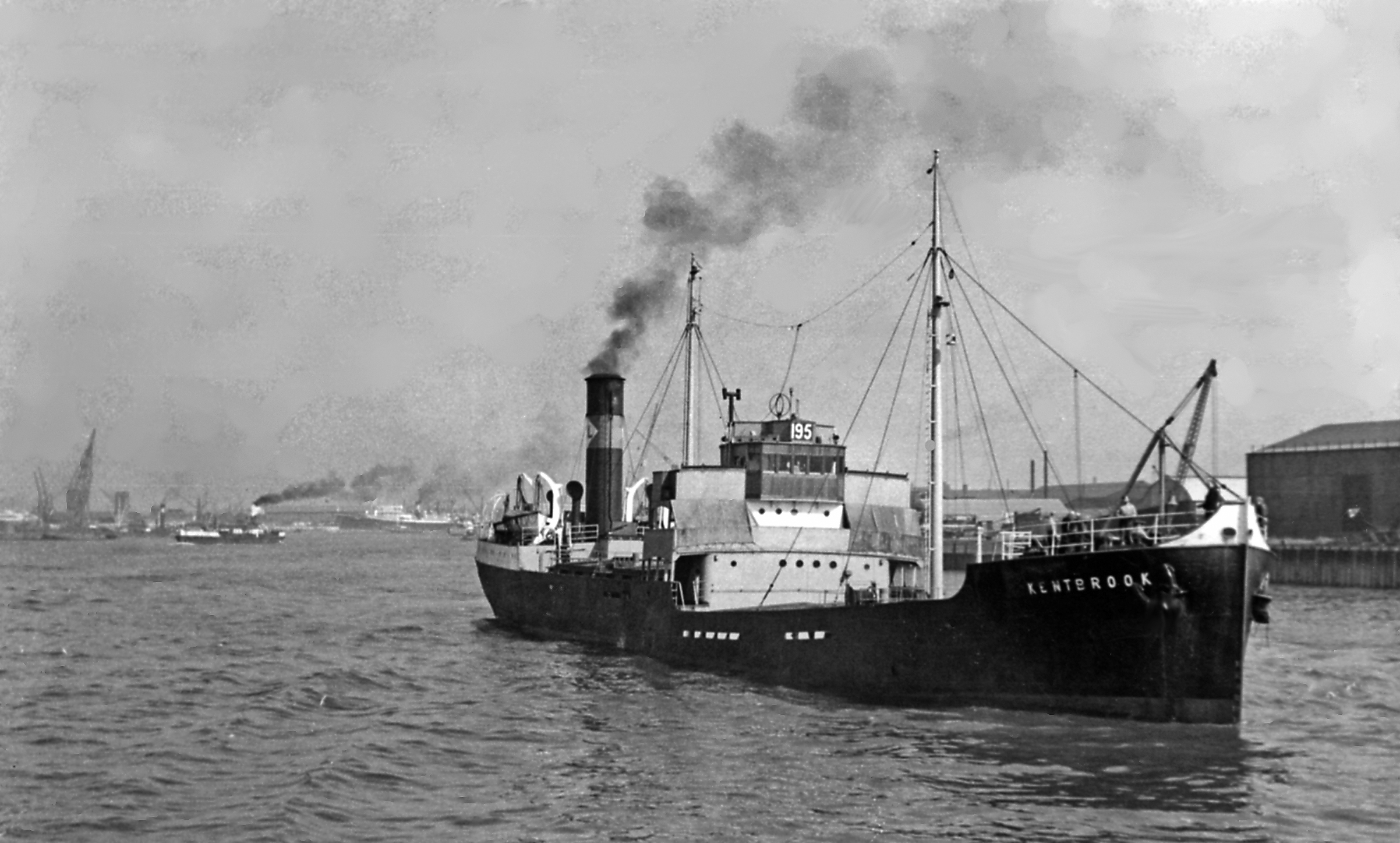 Tramp steamer 'Kentbrook' running upstream off Woolwich. View eastward, from a pleasure steamer returning from Southend, the 'Kentbrook' was wrecked near Orfordness in a storm on 14/2/54.